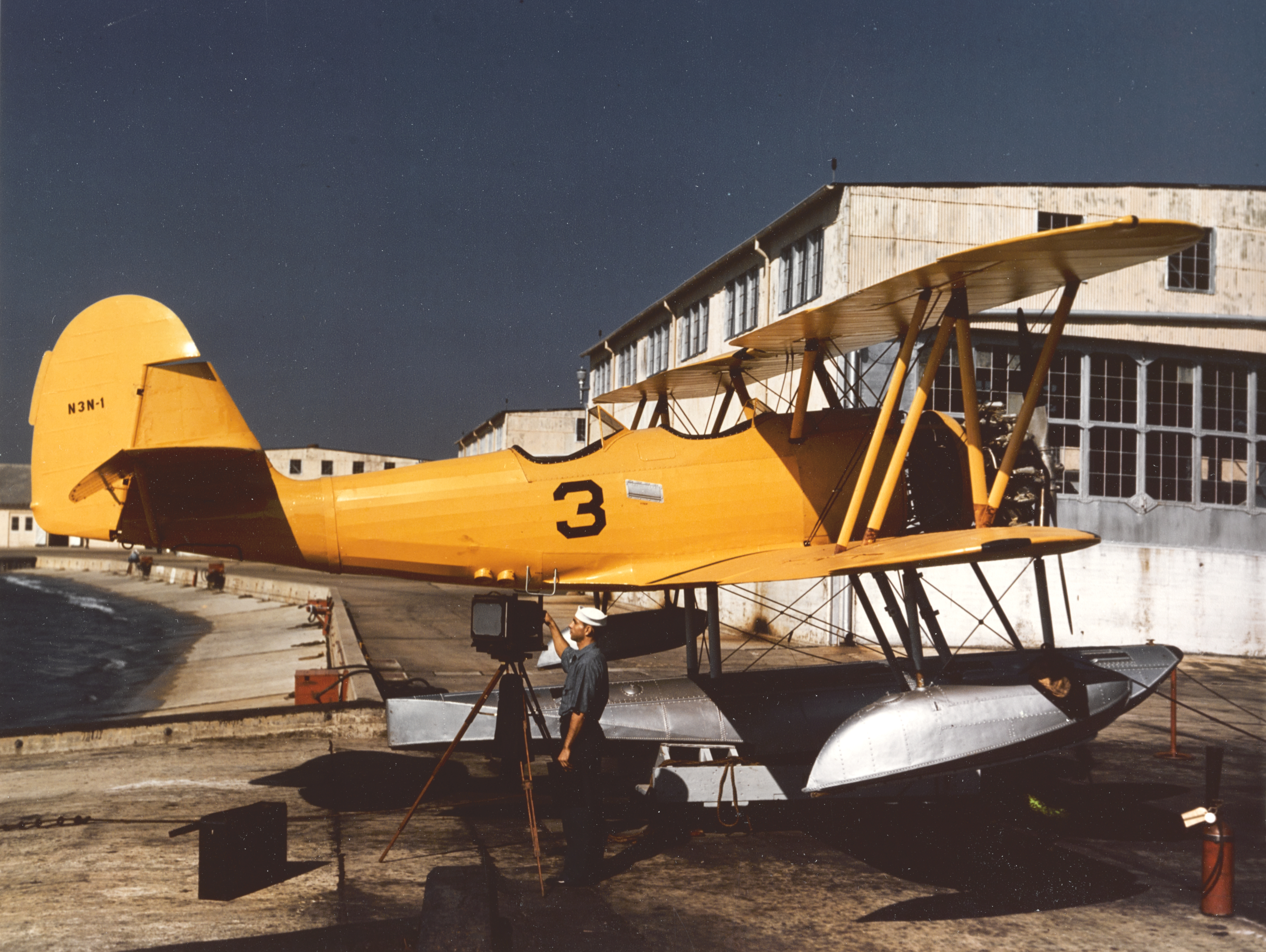 A U.S. Navy Naval Aircraft Nactory N3N-1 Canary trainer on a seaplane ramp at Naval Air Station Pensacola, Florida (USA). The plane has panels removed for maintenance just aft of the engine. Note: This N3N is BuNo 0265. This airplane is the only N3N-2 that was ever built. It was made to help correct some flight characteristics by raising the location of the horizontal elevator in relation to the lower wing. This is 0265 with a -1 rudder fitted as the -2 rudder was a different design all together. You can see the differences in tail design by looking at any picture of the -1 version.